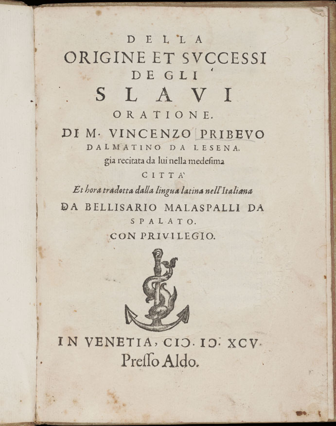 Cover of "Origin and History of Slavs" of Vinko Pribojević, published in Venice, second edition, on italian.